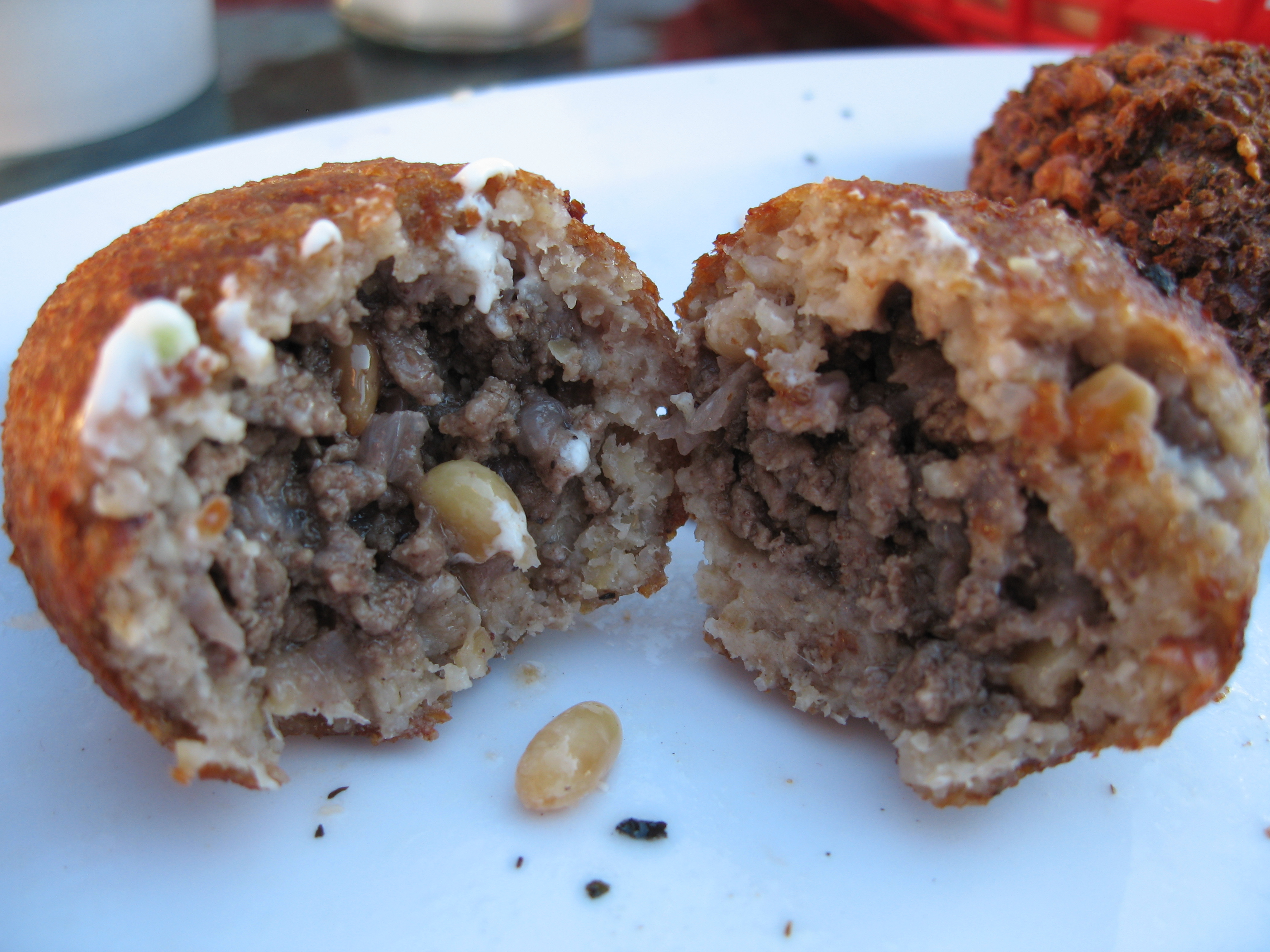 Tender flavorful chopped meat inside. Crispy on the outside